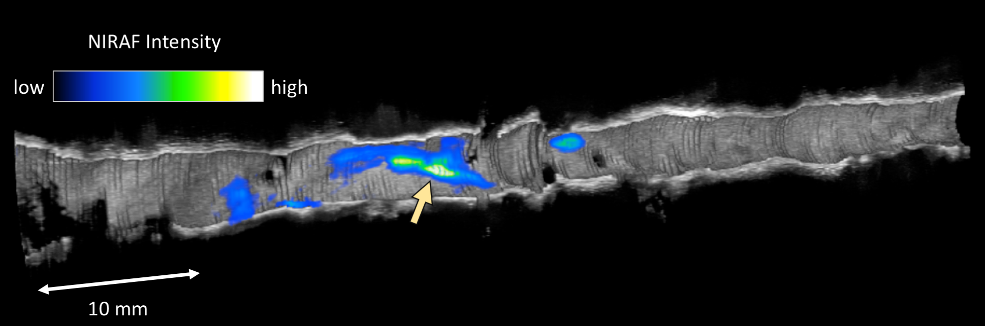 example of intracoronary fluorescence data